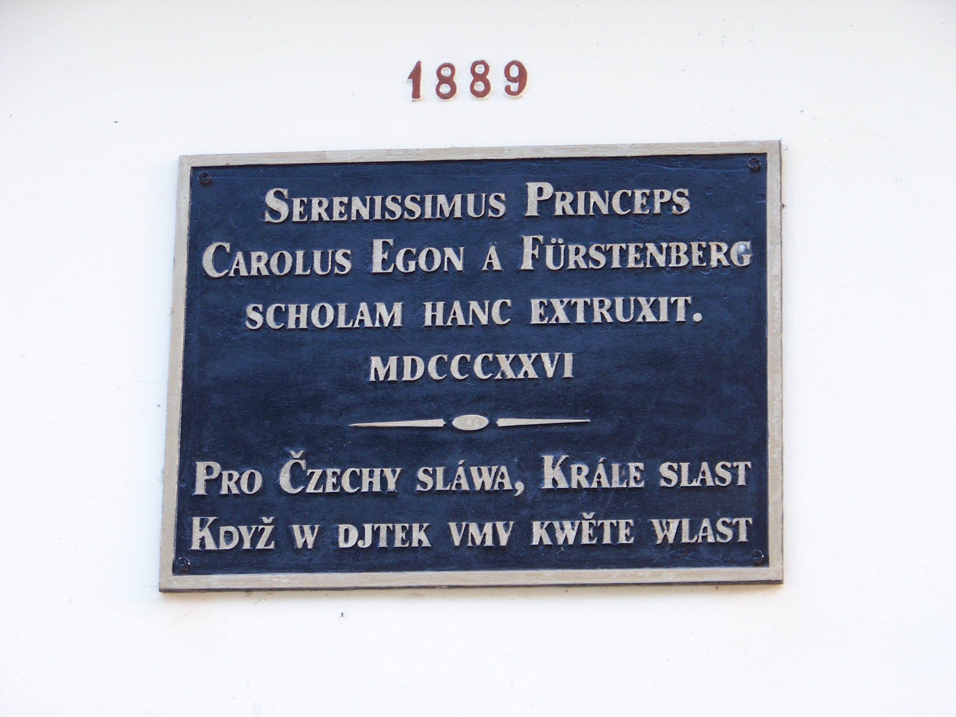 Nižbor, Beroun District, Central Bohemian Region, Czech Republic. Křivoklátská, Školní 25, an elementary school.